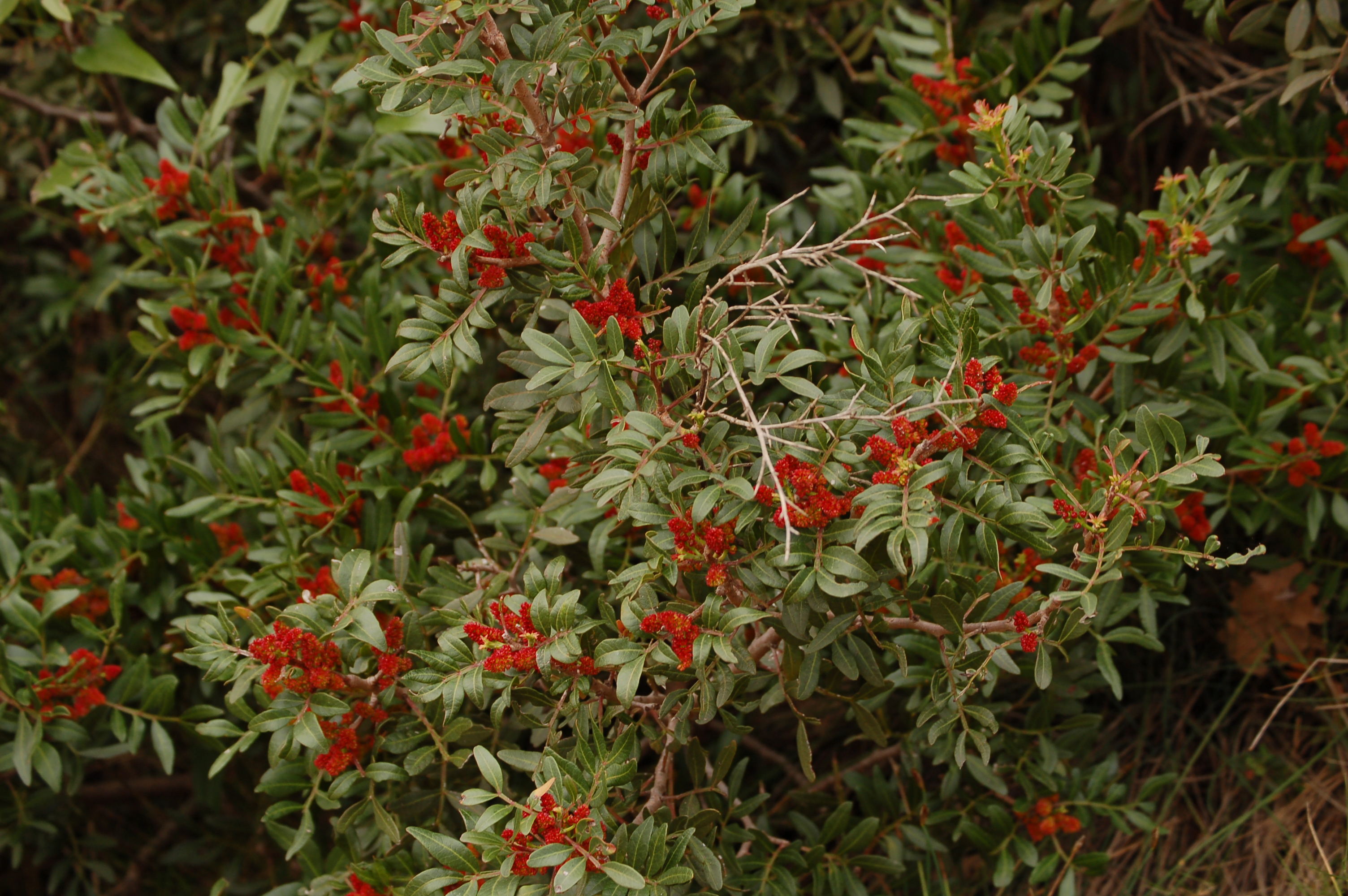 Pistacia lentiscus from Toulon (France)